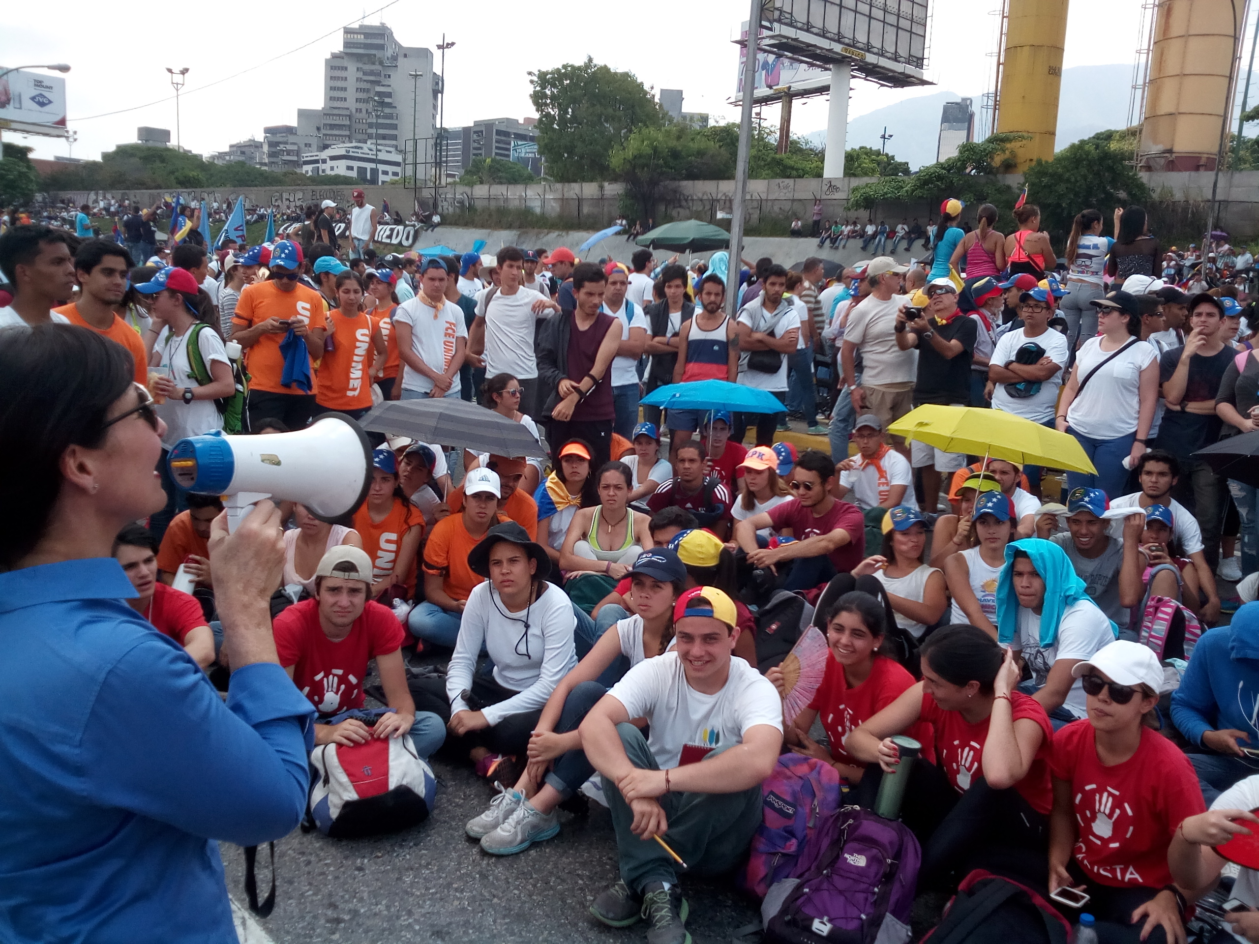 Venezuelan national sit in, 25th April, 2017